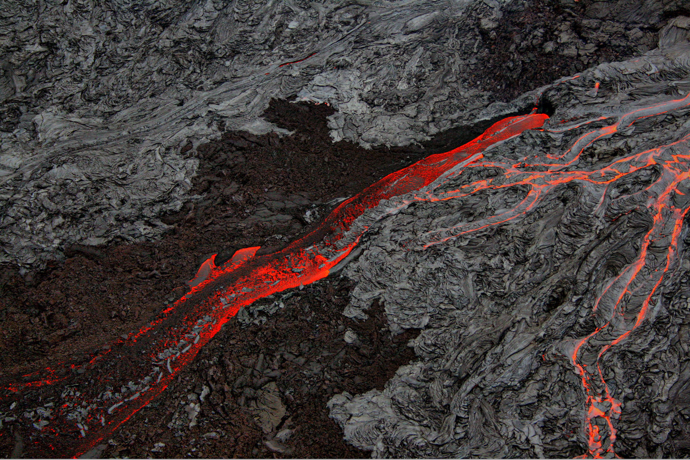 Pāhoehoe Lava and ʻAʻā flows at The Big Island of Hawaii. The picture was taken from a helicopter.